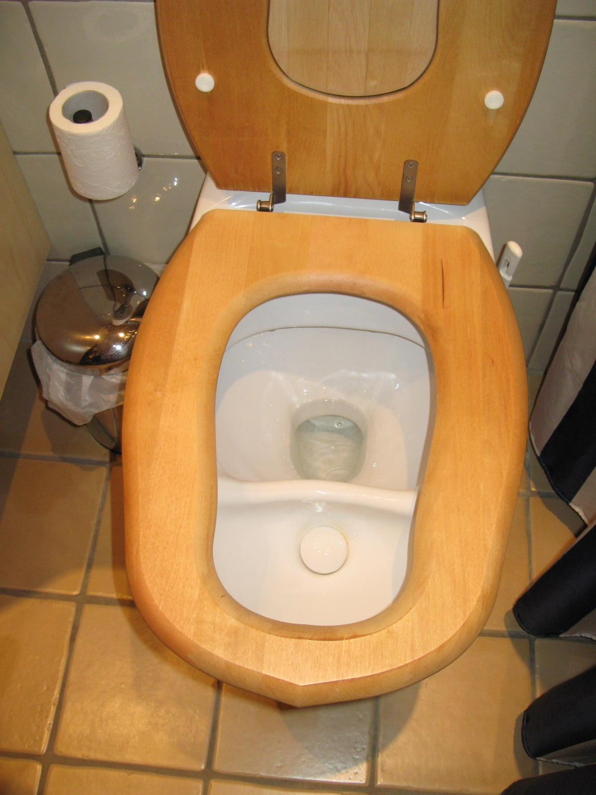 Urine diverting flush toilet in Stockholm (by Dubbletten) Photograph taken by E. von Muench in Stockholm field trip (August 2007)